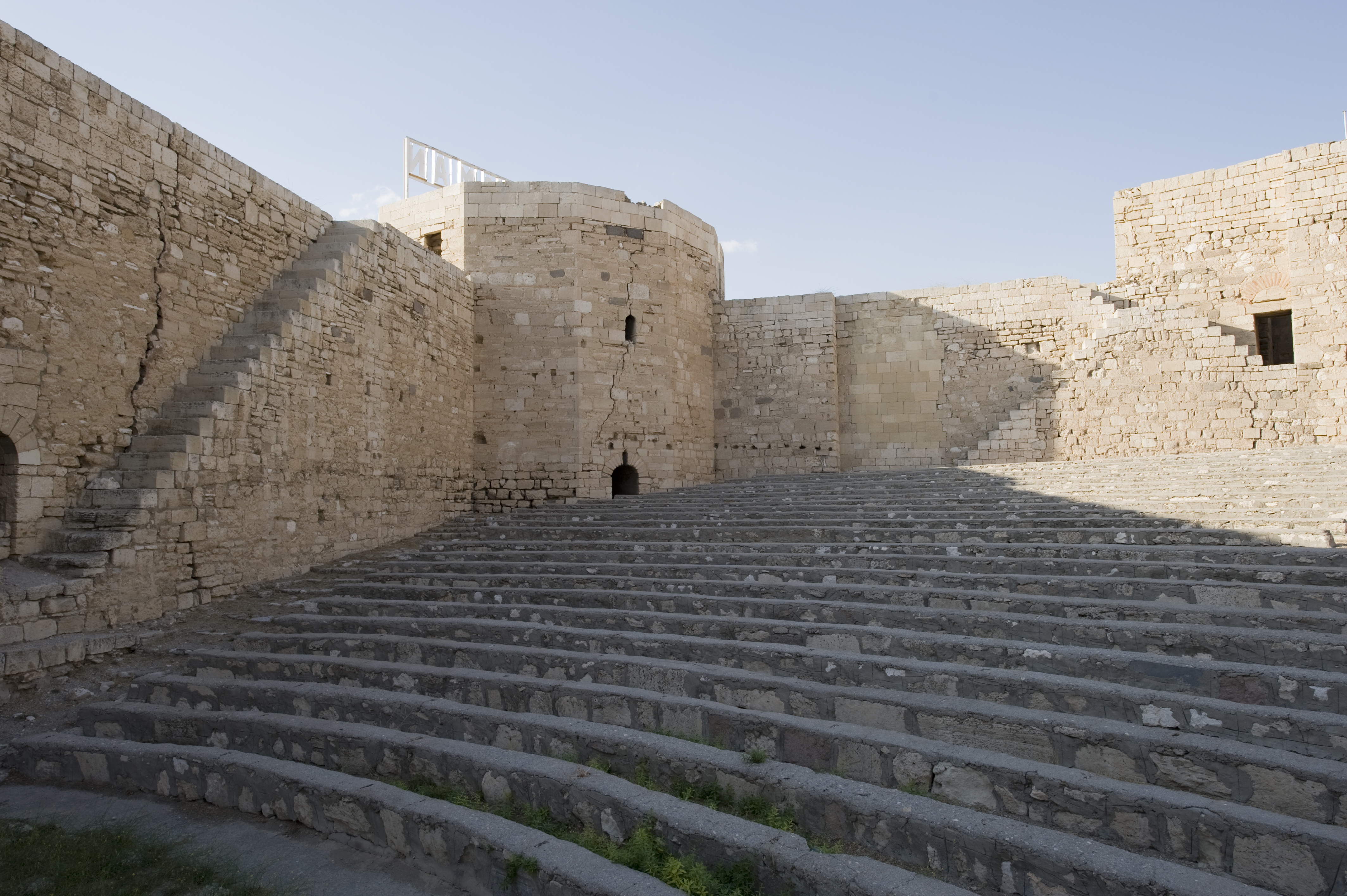 I was taking a rest outside the citadel, which was closed, when a garden worker kindly warned me that the major was visiting the citadel, together with a foreign delegation. So the gate would be opened. I just joined the group, took some pictures and had a short chat with the major, after I told a Dutch representative that in my guidebook there was a reference to medieval houses surrounding the citadel: they had obviously disappeared. Yes, the major explained, they had been demolished 20 years ago (the guidebook is very thorough, but indeed stems from the late 80’s). But he promised that the area near the citadel would be landscaped anew, giving it a more pleasant aspect. Karaman Castle (named ‘Iç Kale’ = Inner Castle) was the citadel of the medieval city. It is built on a slightly elevated hill (maybe a ‘höyük’ = artificial mound, result of long-term human settlement). According to the scarce historical sources, it seems to have been built around the early 12th century (Seljuk era). It has nine towers (four circular and five square ones). Like most fortresses, it has been repaired many times –recent restorations took place in 1961, 1975 and from 2010 on. During Karamanoğlu rule, a double set of city walls were erected: ‘Orta Kale’ (Middle Castle) had two gates and 40 towers and encircled an area with Iç Kale in its very centre. One of those gates (Pazar Kapısı = Market Gate) survived and has been restored. The second city walls ‘Dış Kale’ (Outer Castle) were grand, stretching about 5 km; Evliya Çelebi (1611-1682), the famous Turkish writer/traveller, described them in 1648 as having “140 towers and 9 city gates”. Alas, almost nothing of these remains. Source: ‘Karaman (Tarihi ve Kültürü)’ (Ilhan Temizsoy & M. Vehbi Uysal) – Konya 1981 .